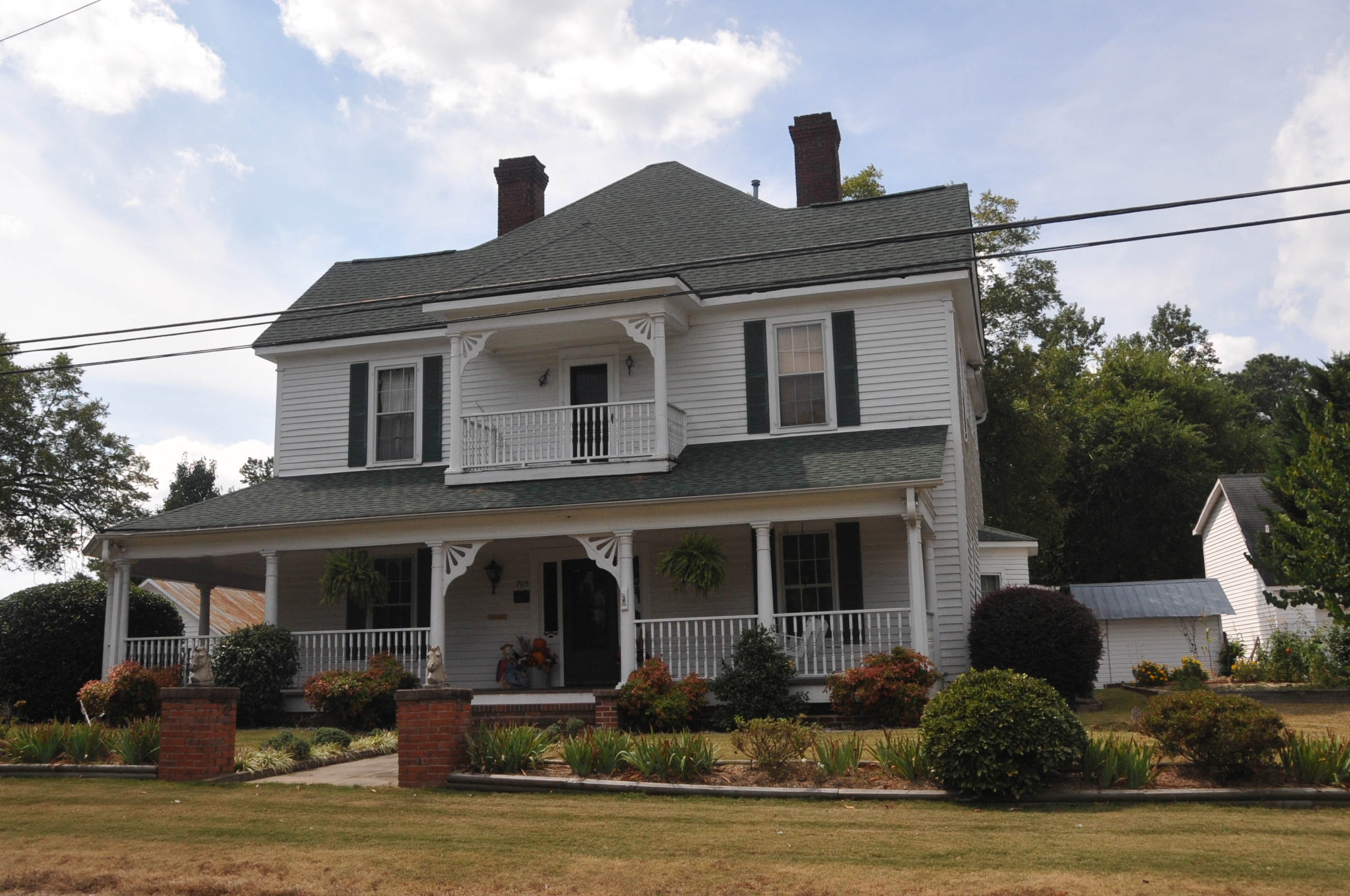 W.T. JENKINS HOUSE CIRCA 1870 - LATE EXAMPLE OF GREEK REVIVAL FOR A PROMINENT MERCHANT AT 703 McREYNOLDS STREET